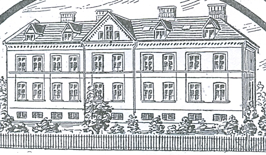 Drawing of the building of Gammel Hellerup Gymnasium where the school had at home on Frederikkevej from 1894 and until 1956. Drawing from the front page of the school magazine 1909.